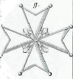 Order of the White Cross, Tuscany, 1814